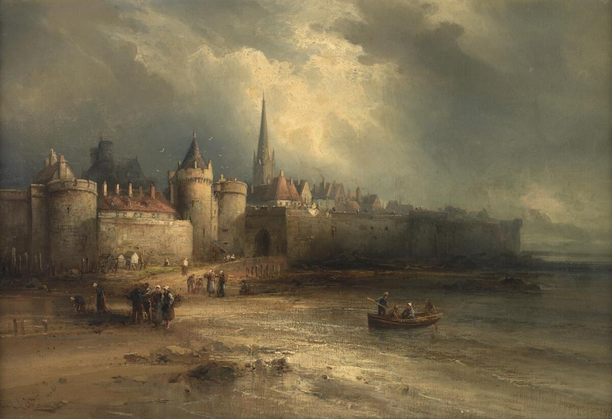 A painting from the Framed Works of Art collection at the National Library of wales.